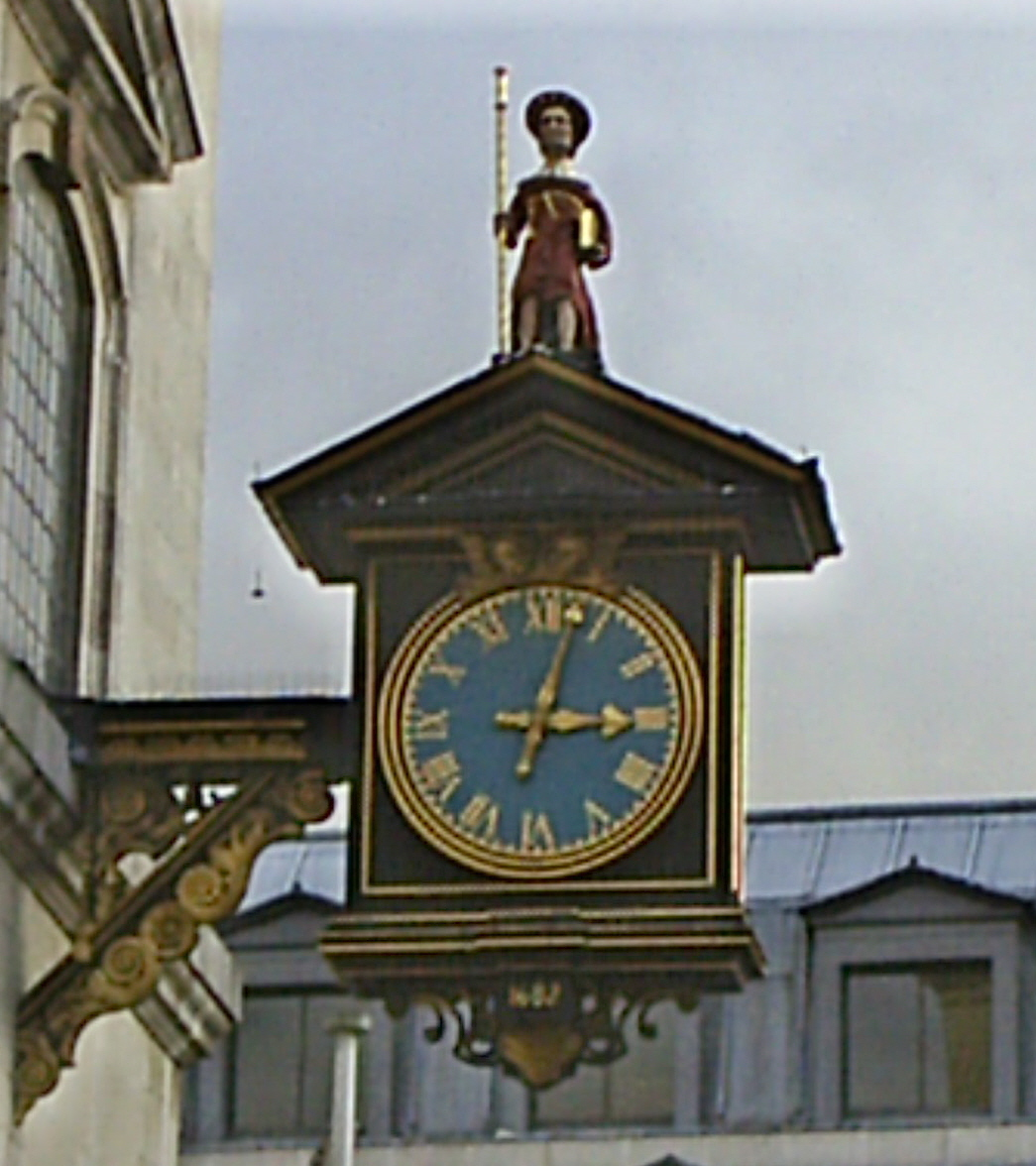 St James Garlickhythe, London, clock